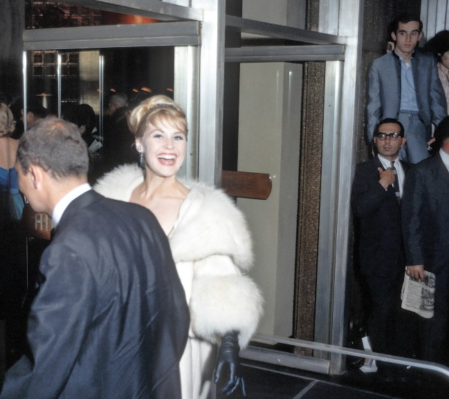 Margaret Teele Hollywood Premier